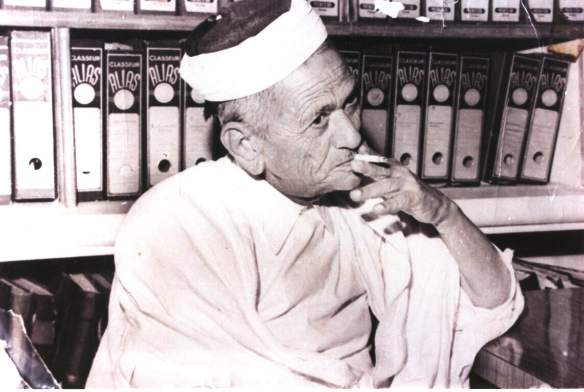 Tunisian writer Mohamed Hédi El Amri during a TV interview